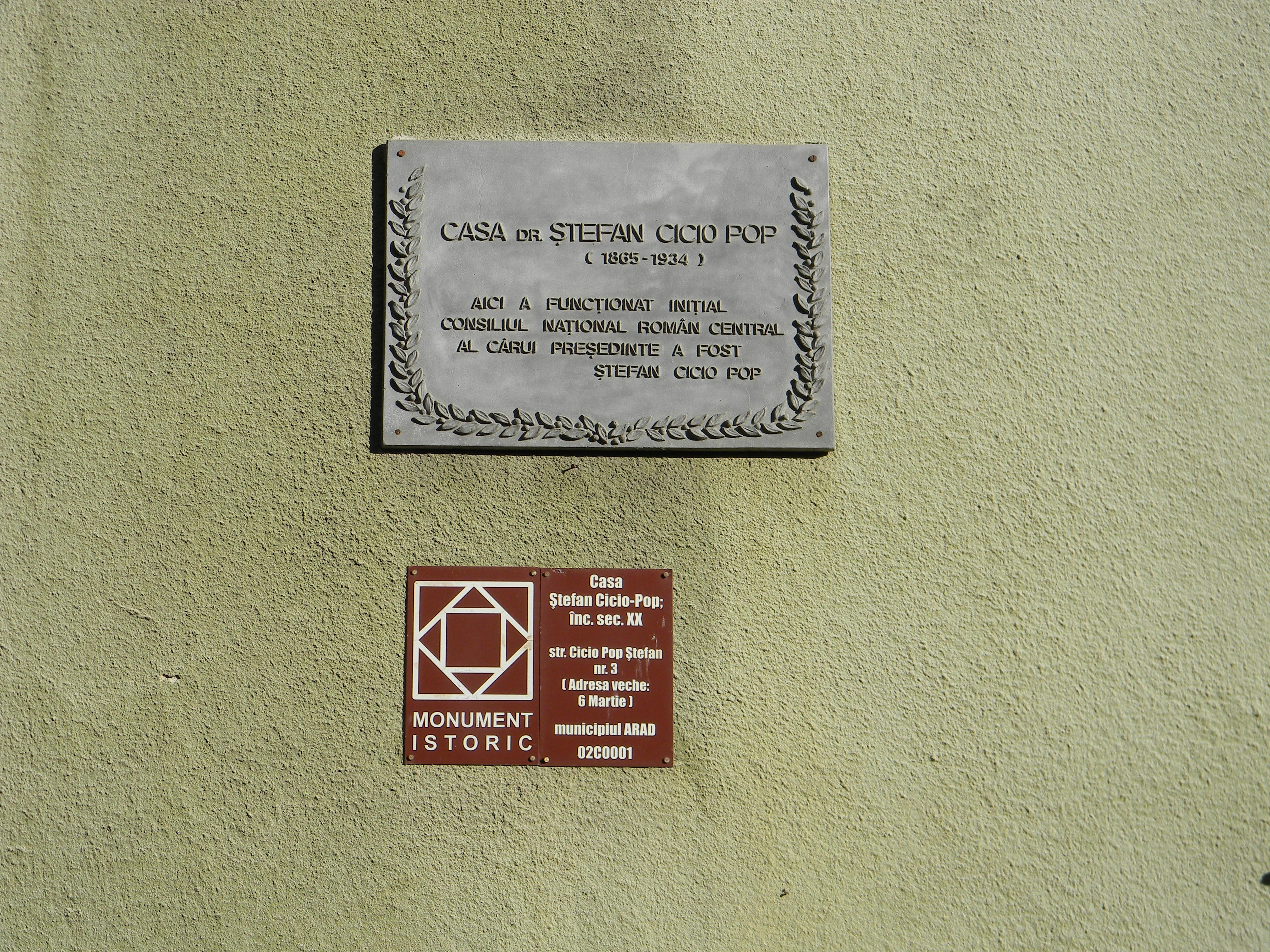 Plate - Historical Monument